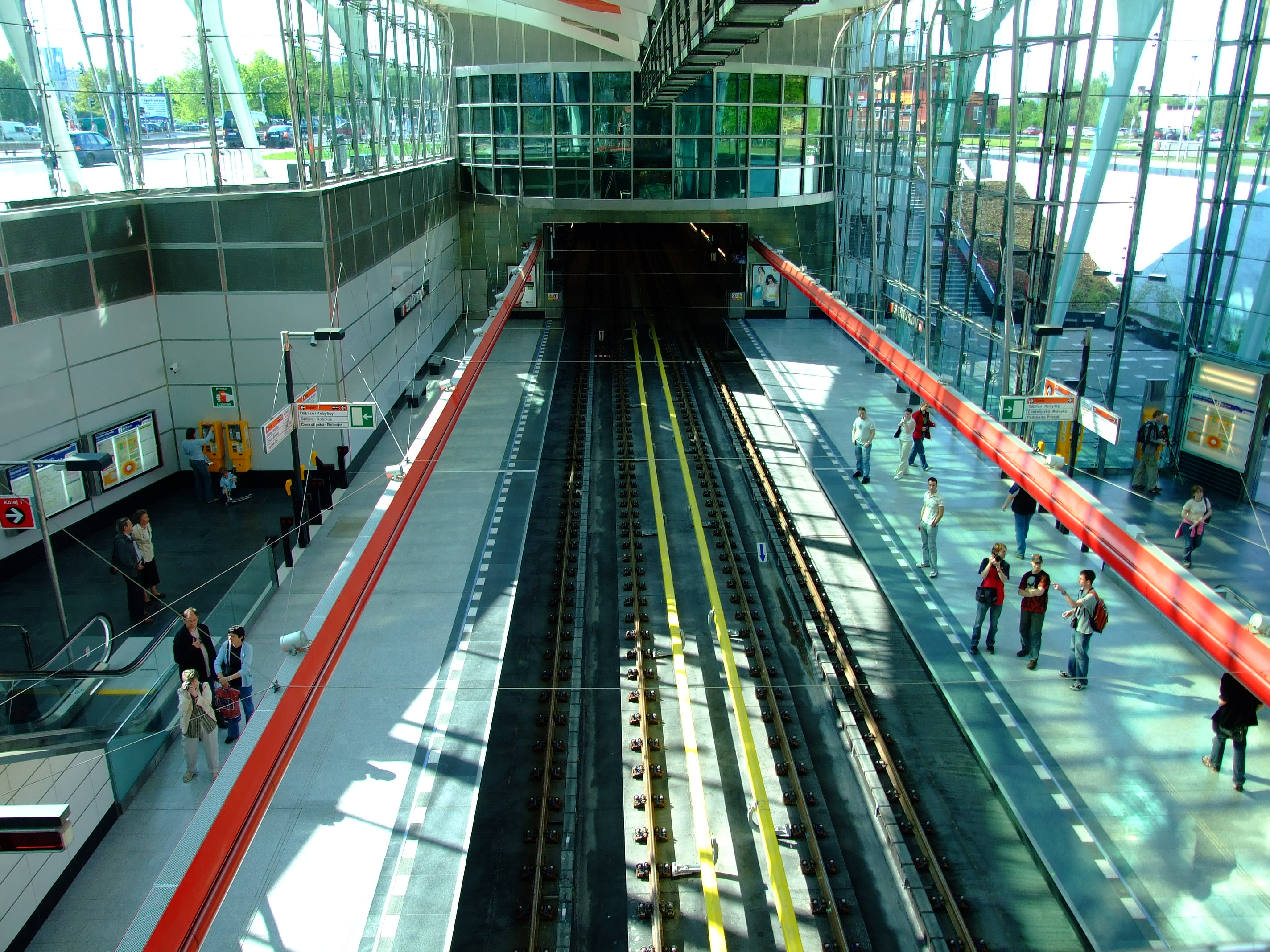 Střížkov metro station in Prague, several hours after opening for publichelp